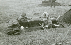 Excavation at the Ipiutak Site, an archaeological site located near the community of Sagwon in the North Slope Borough of the U.S. state of Alaska. The location of artifacts 2,000 years old, it was designated a National Historic Landmark on 20 January 1961.